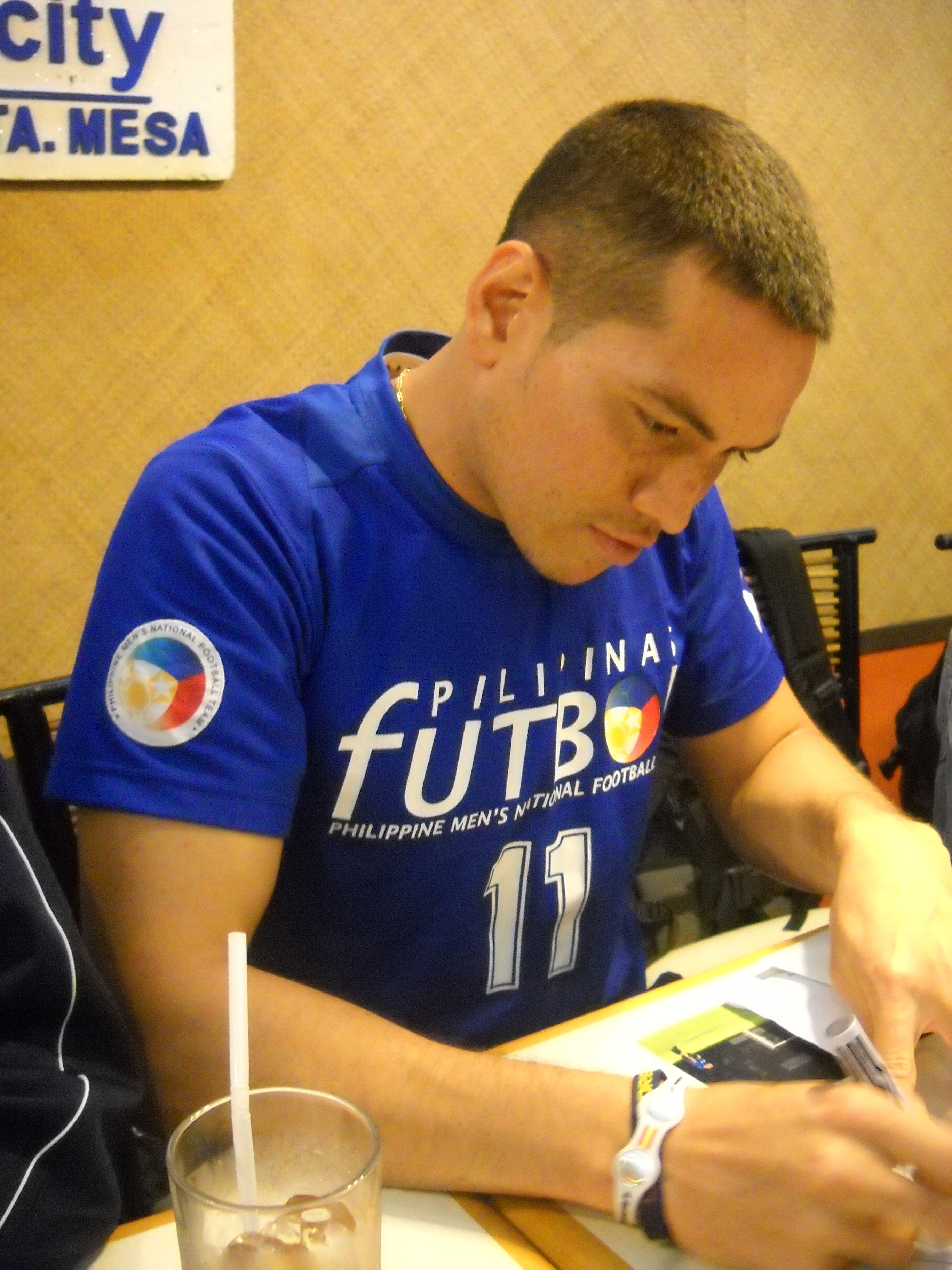 Alexander "Aly" Borromeo, the captain of the Philippines national football team, signing an autograph during a meet-and-greet event after a press conference.